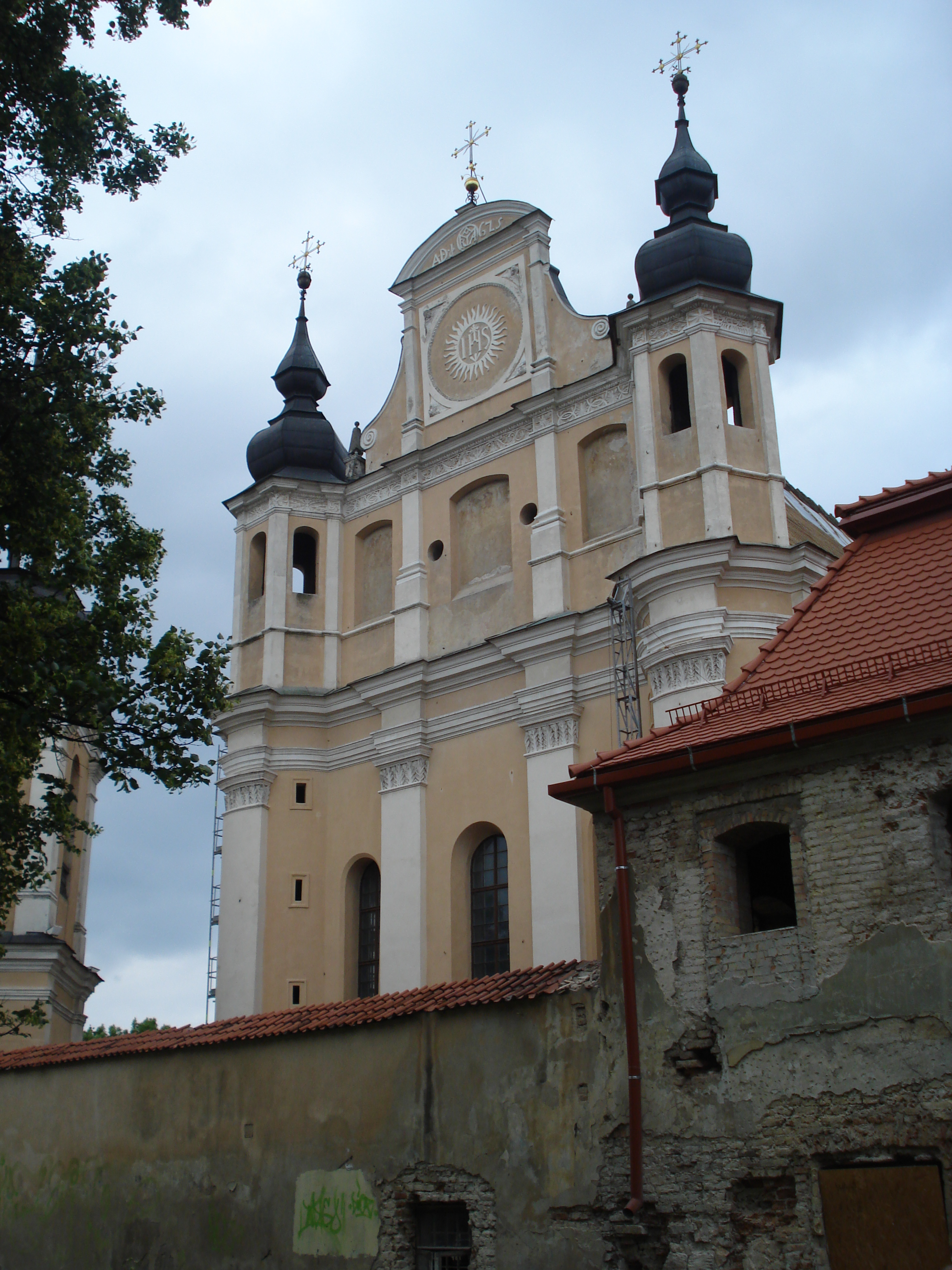 Church of St. Michael in Vilnius. Courtyard